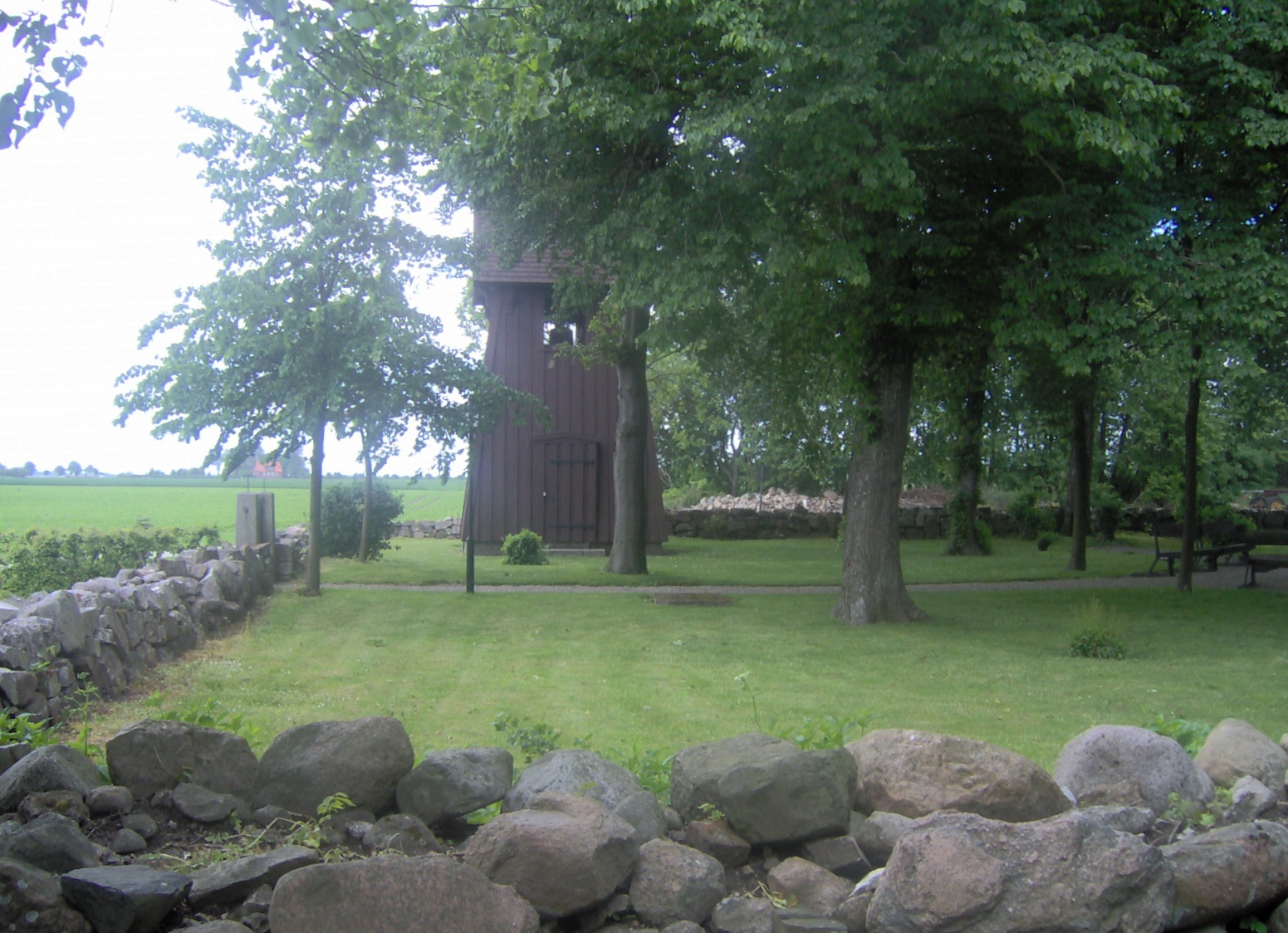 Flackarp old cemetary Source: taken by self june 7th 2005, rotated by User:Daedalus